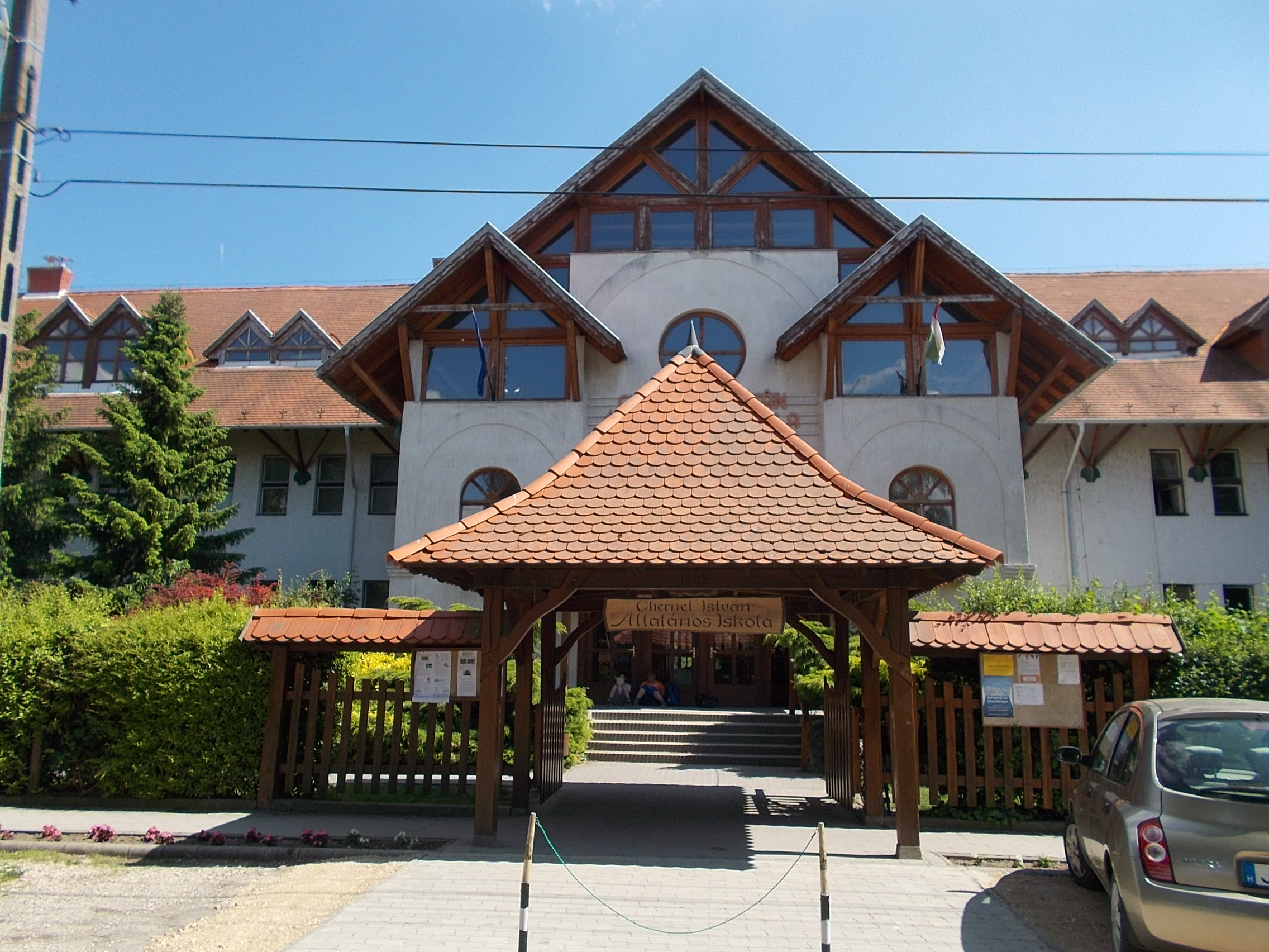 Chernel school. - 2 Iskola Street, Agárd, Gárdony, Fejér County, Hungary.